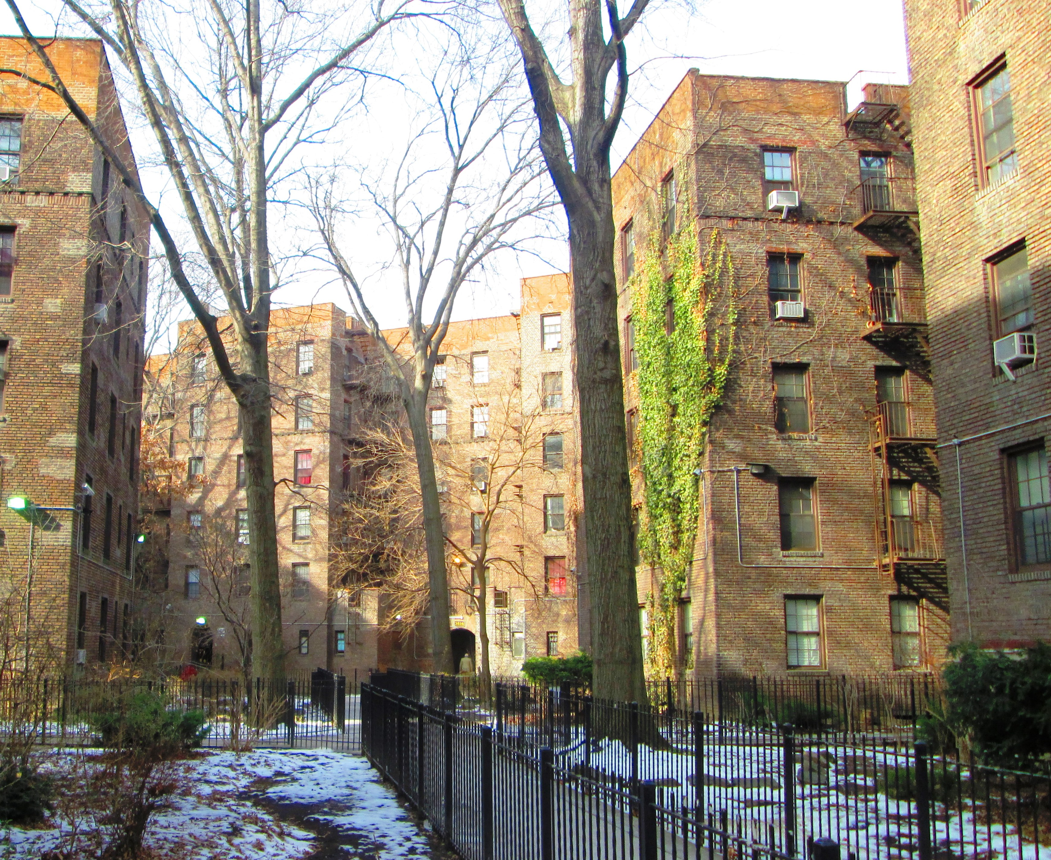 The Dunbar Apartments is a complex of buildings located on West 149th and West 150th Streets between Frederick Douglass Boulevard/Macombs Place and Adam Clayton Powell Jr. Boulevard in the Harlem neighborhood of Manhattan, New York City. They were built by John D. Rockefeller, Jr. from 1926 to 1928 to provide housing for African Americans, the first project of its kind. The buildings were designed by architect Andrew J. Thomas and were named in honor of the noted African American poet Paul Laurence Dunbar. (Sources: Guide to NYC Landmarks (4th ed.) and AIA Guide to NYC (5th ed.))